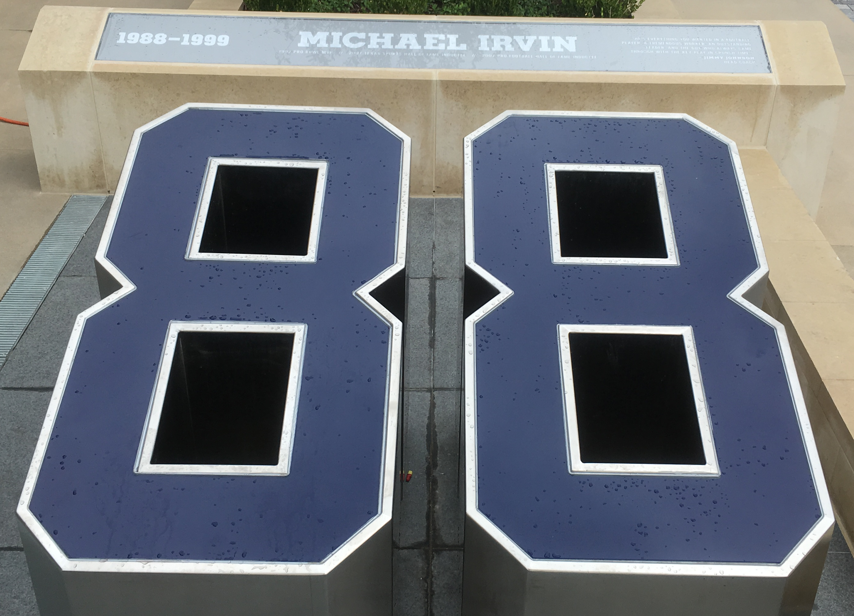 Michael Irvin's number displayed large at the Dallas Cowboys' headquarters, The Star.